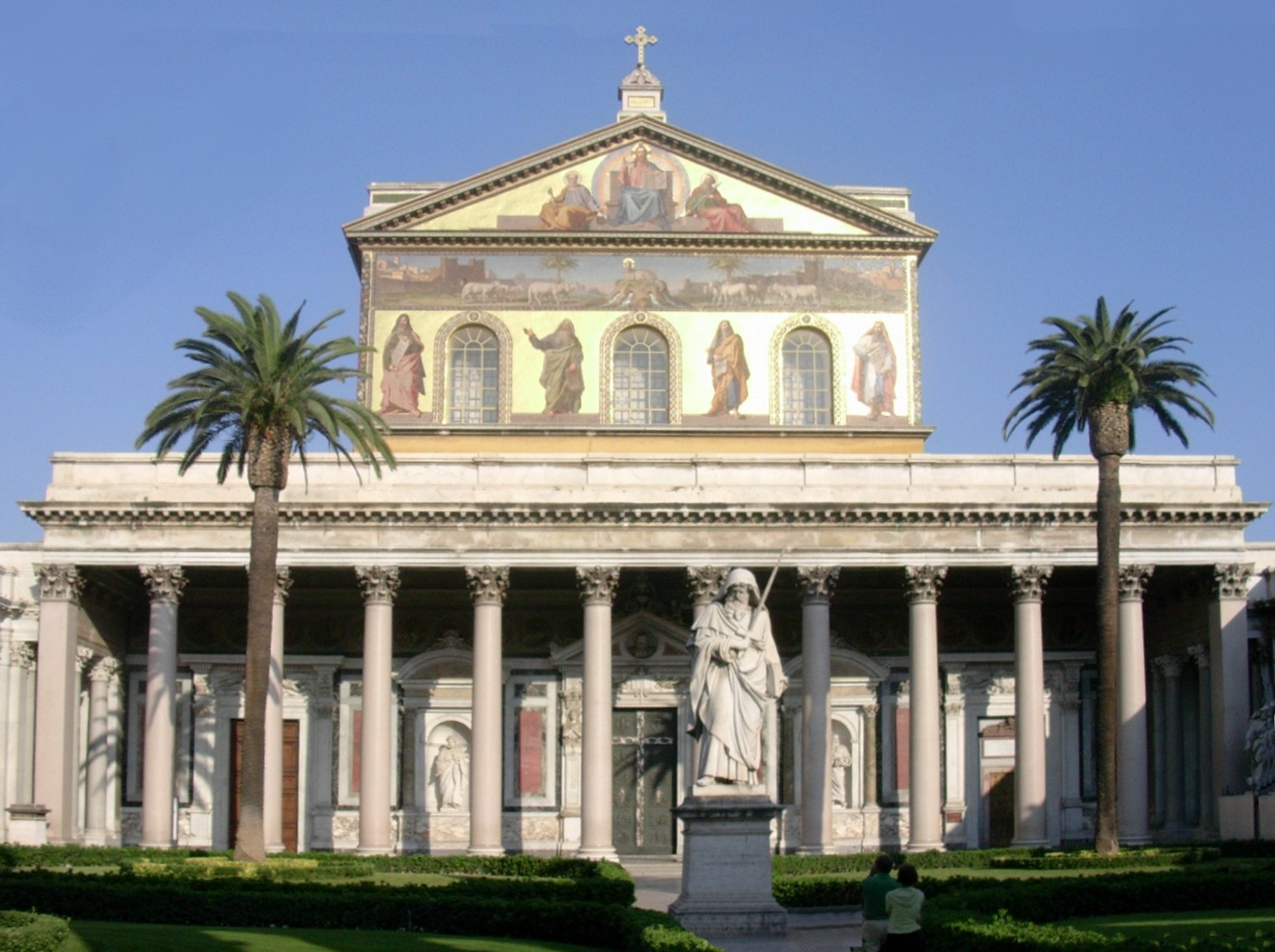 Retouched Version of Bild:Paulskirche_in_Rom.jpg